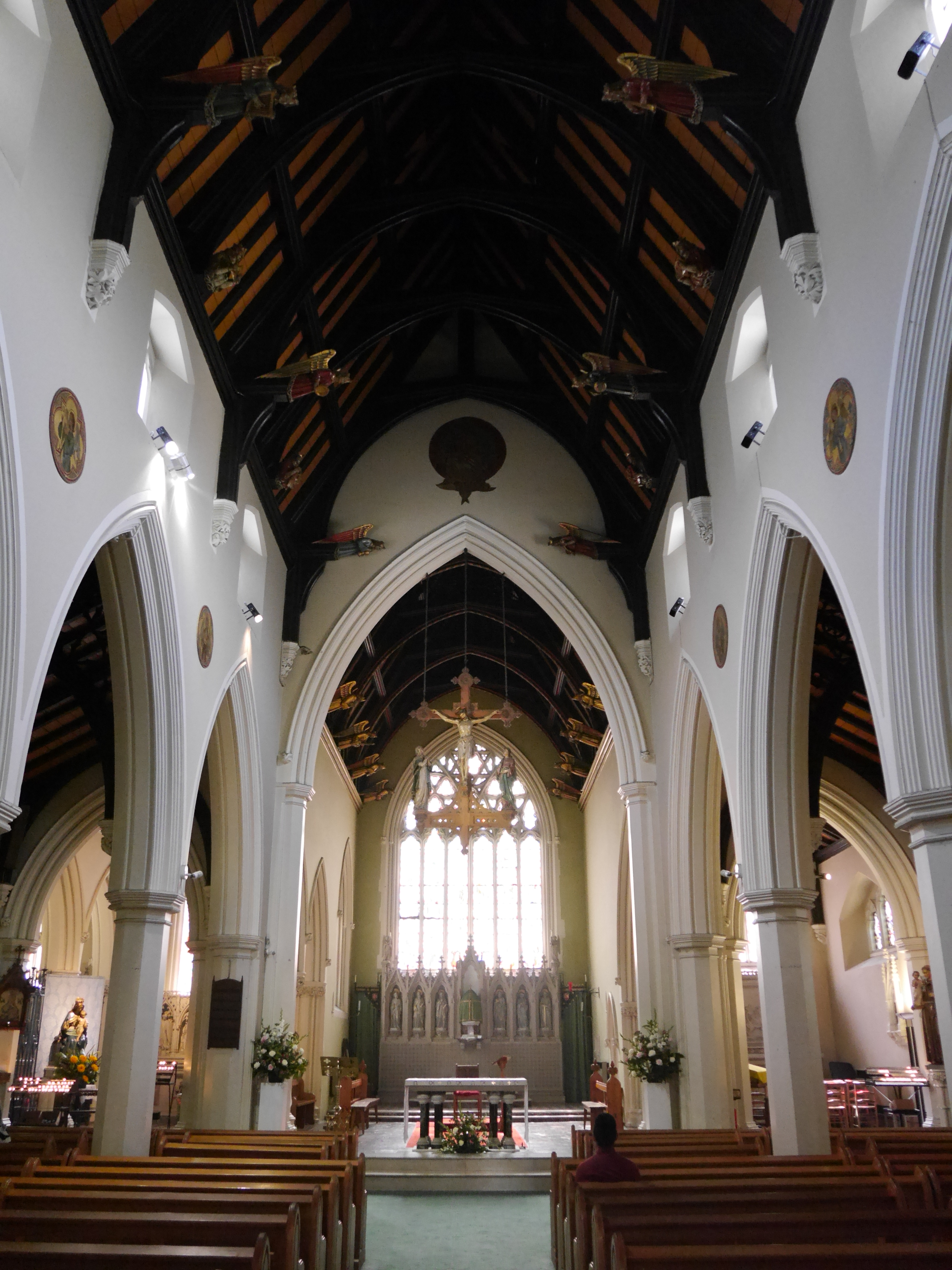 Holy Trinity, Brook Green, London